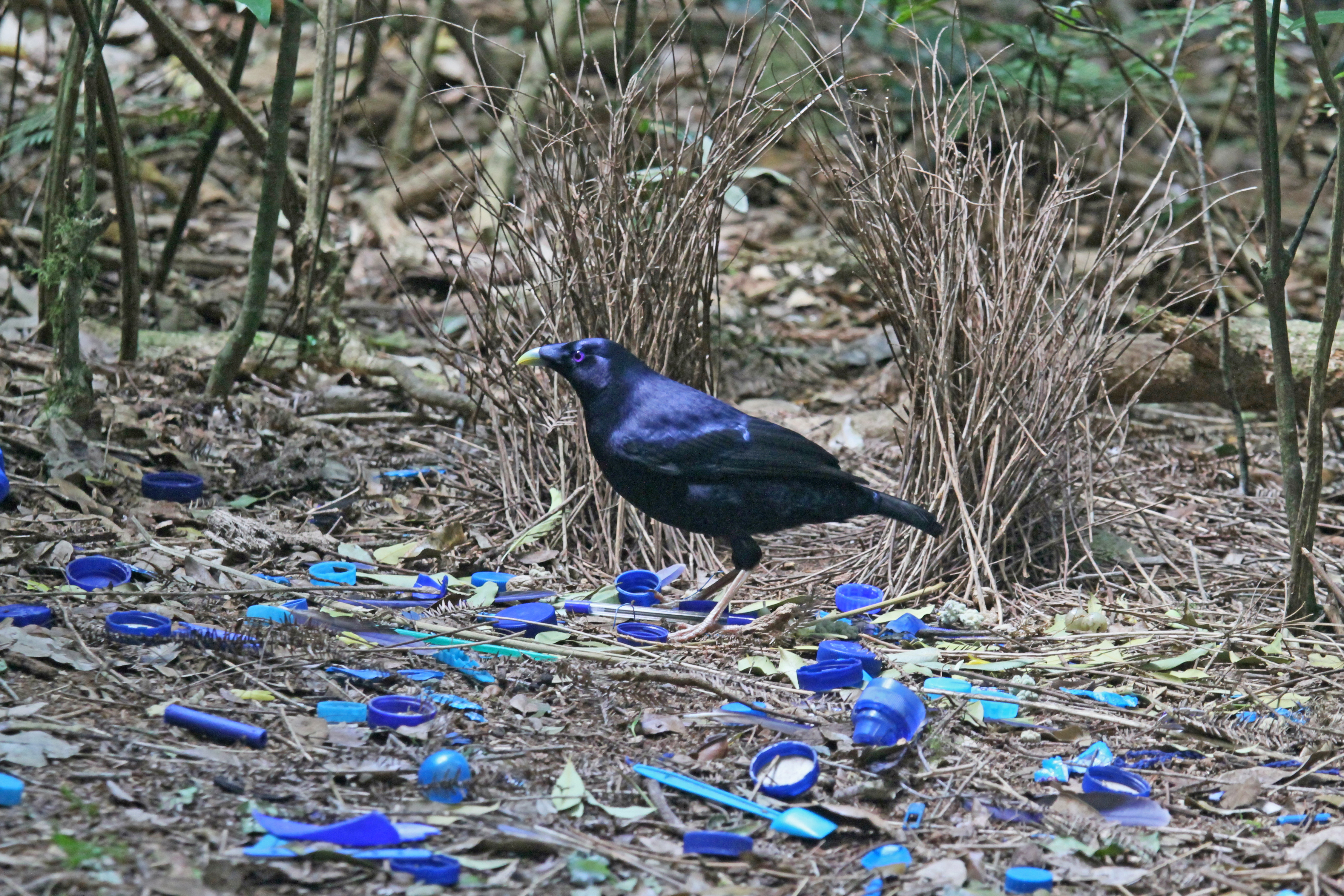 photo of Satin Bowerbird at his bower